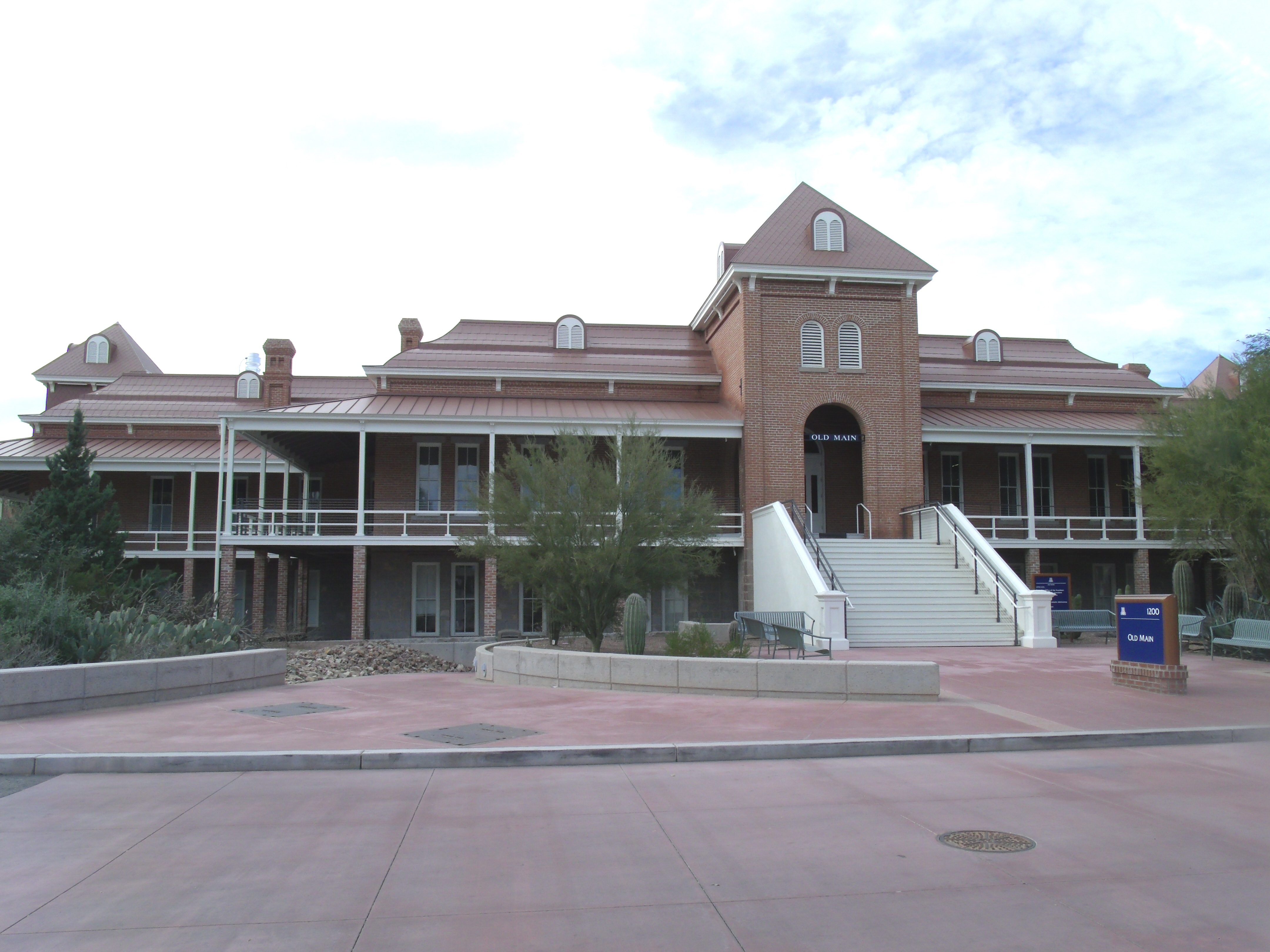 The Old Main, also known as the University of Arizona, School of Agriculture, was built in 1875 and is located in the University of Arizona campus, Tucson. It was added to the National Register of Historic Places in 1972, ref. : #72000199.